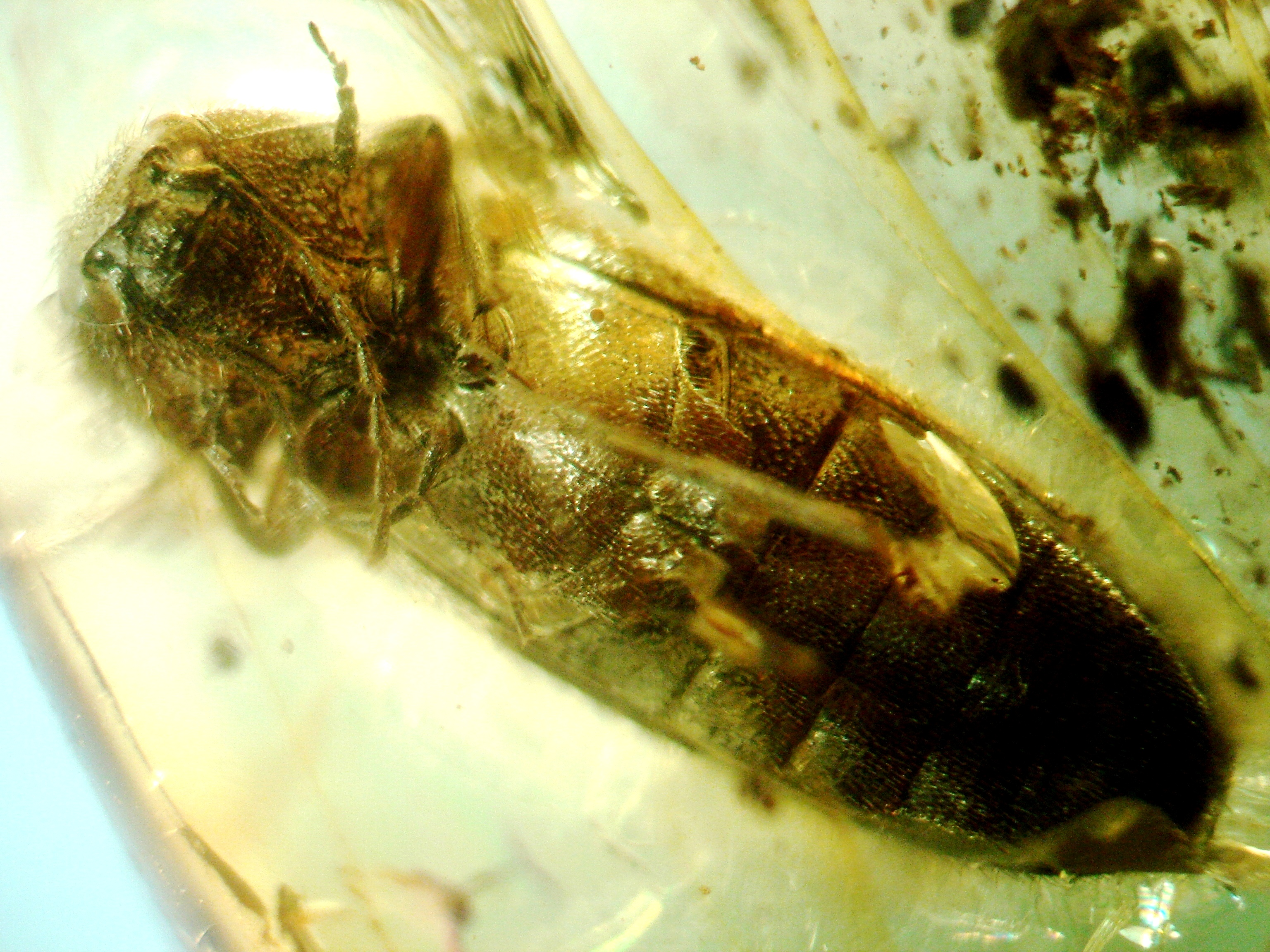 Baltic amber inclusions - 50 million years old - Coleoptera, Elateridae, ...? Piture "Baltic amber Coleoptera Elateridae 1" show the back of this beetle